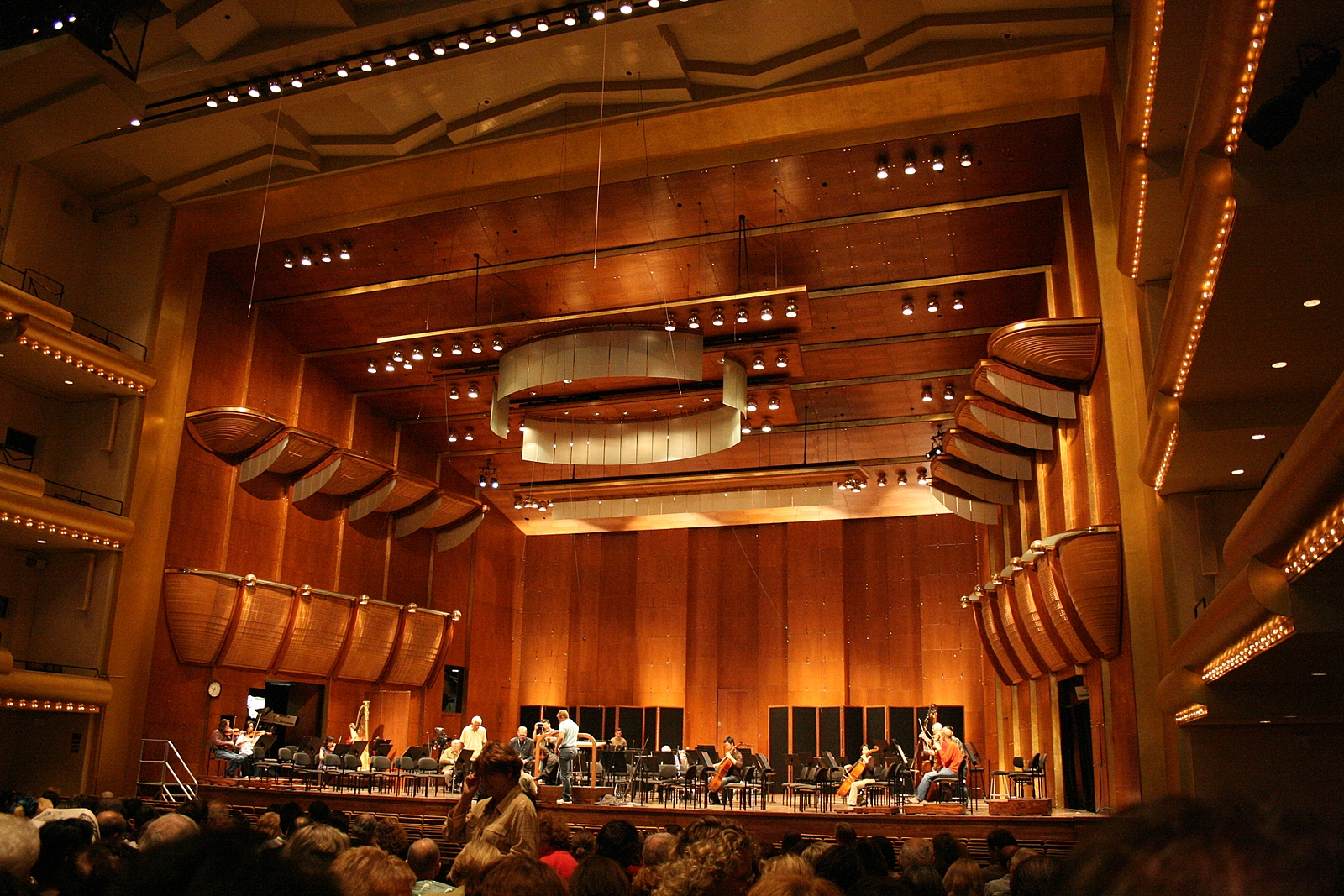 Avery Fisher Hall at Lincoln Center for the Performing Arts in Manhattan.